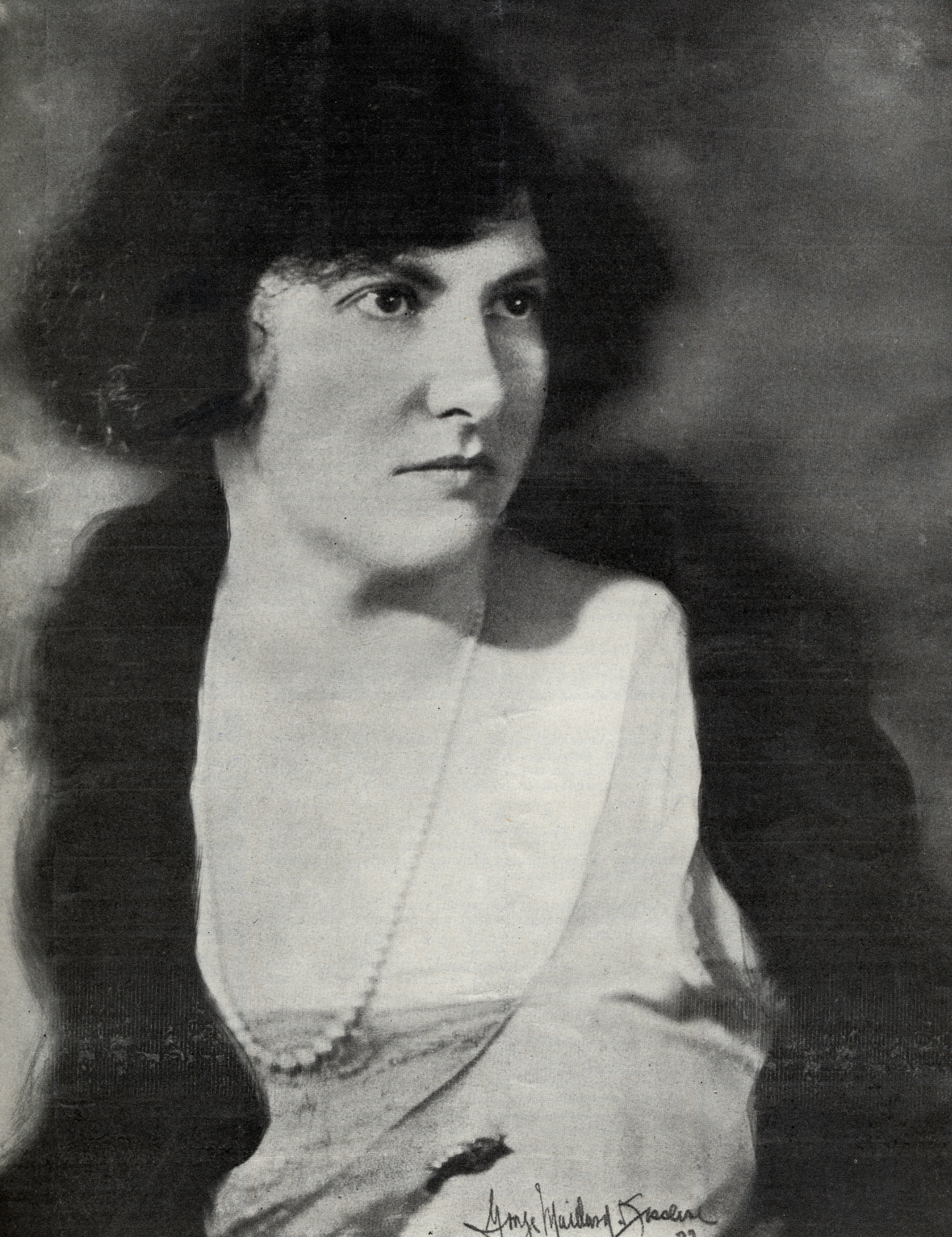 Portrait of Marion Bauer, 1922